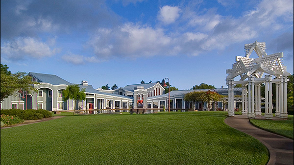 City Hall offices and fountains in downtown Pleasant Hill, CA